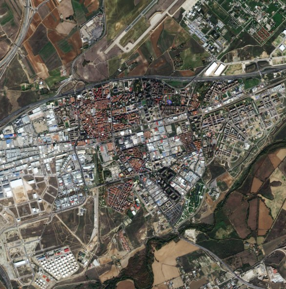 The diverse landscapes of the autonomous Community of Madrid in the heart of Spain are evident in this week’s image. The community and country’s capital city is visible near the centre of the image. Zooming in, we can see the Buen Retiro park just east of the city centre with its large, artificial pond. About 3.5 km due north sits the Santiago Bernabéu football stadium. Southeast of the stadium we can see another circular structure: the Las Ventas bullfighting ring. In the upper left corner of the image is the El Pardo mountain and protected natural park, which is popular for mountain biking. The other areas surrounding Madrid are blanketed with agricultural structures. East of the city are large fields along the Jarama river, and more areas of agriculture appearing brown further east still. This image, also featured on theEarth from Space video programme, was taken by the Sentinel-2A satellite on 16 November 2015. Launched in June 2015, Sentinel-2 can map changes in land cover such as forest, crops, grassland, water surfaces and artificial cover like roads and buildings in cities. Early results from the mission on mapping changes in land cover are expected to be presented at the upcoming Living Planet Symposium, held in Prague in May. The event brings together scientists and users to present their latest findings on Earth’s environment and climate derived from satellite data.